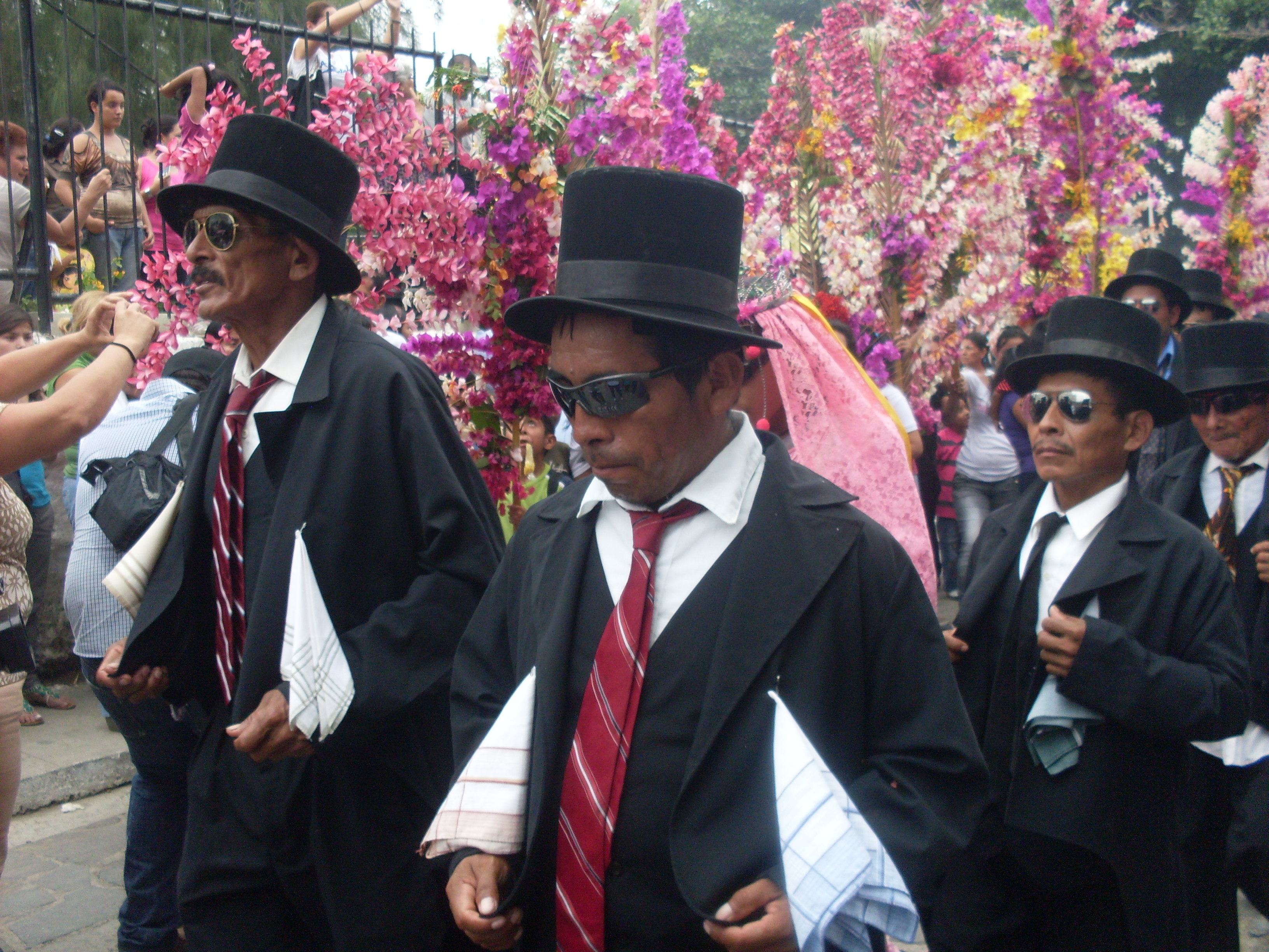 It dances traditional of The Chapetones